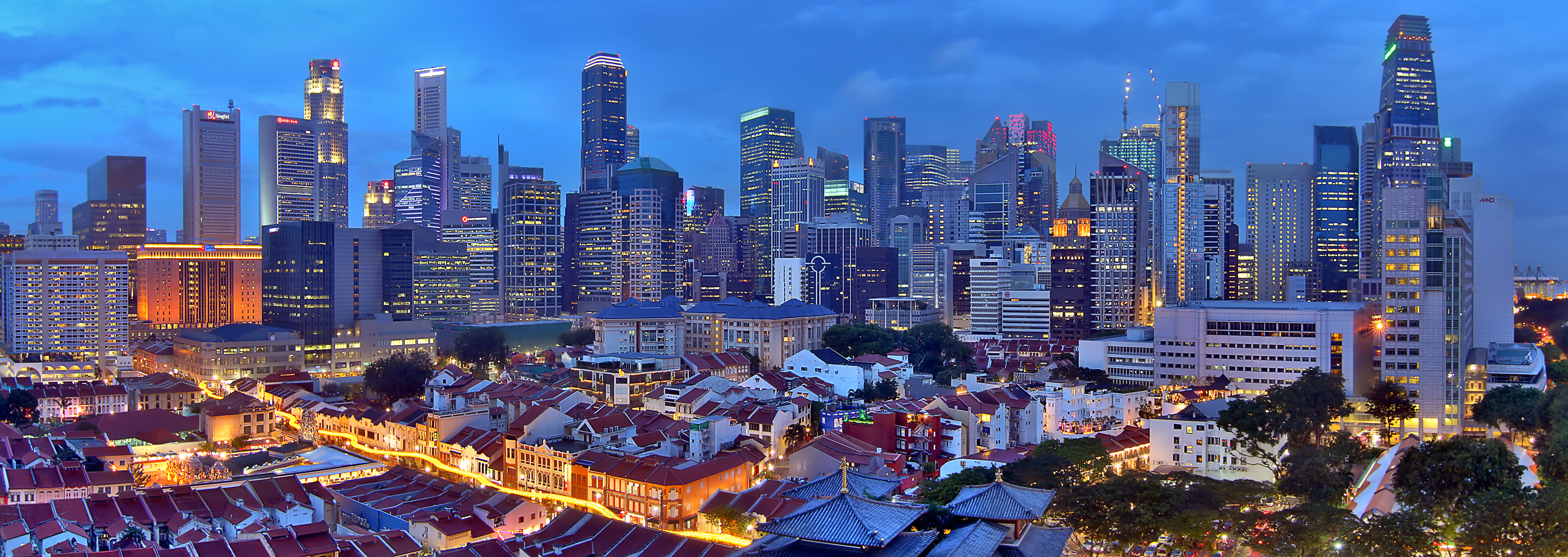 Singapore skyline from Chinatown at blue hour